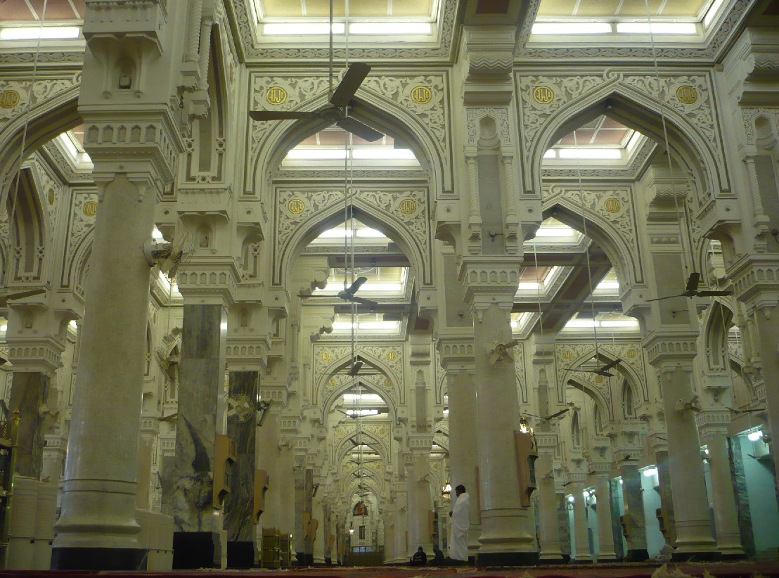 Mosque interior — Masjid al-Haram, Mecca.